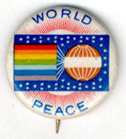 World Peace Flag of the Universal Peace Congress.